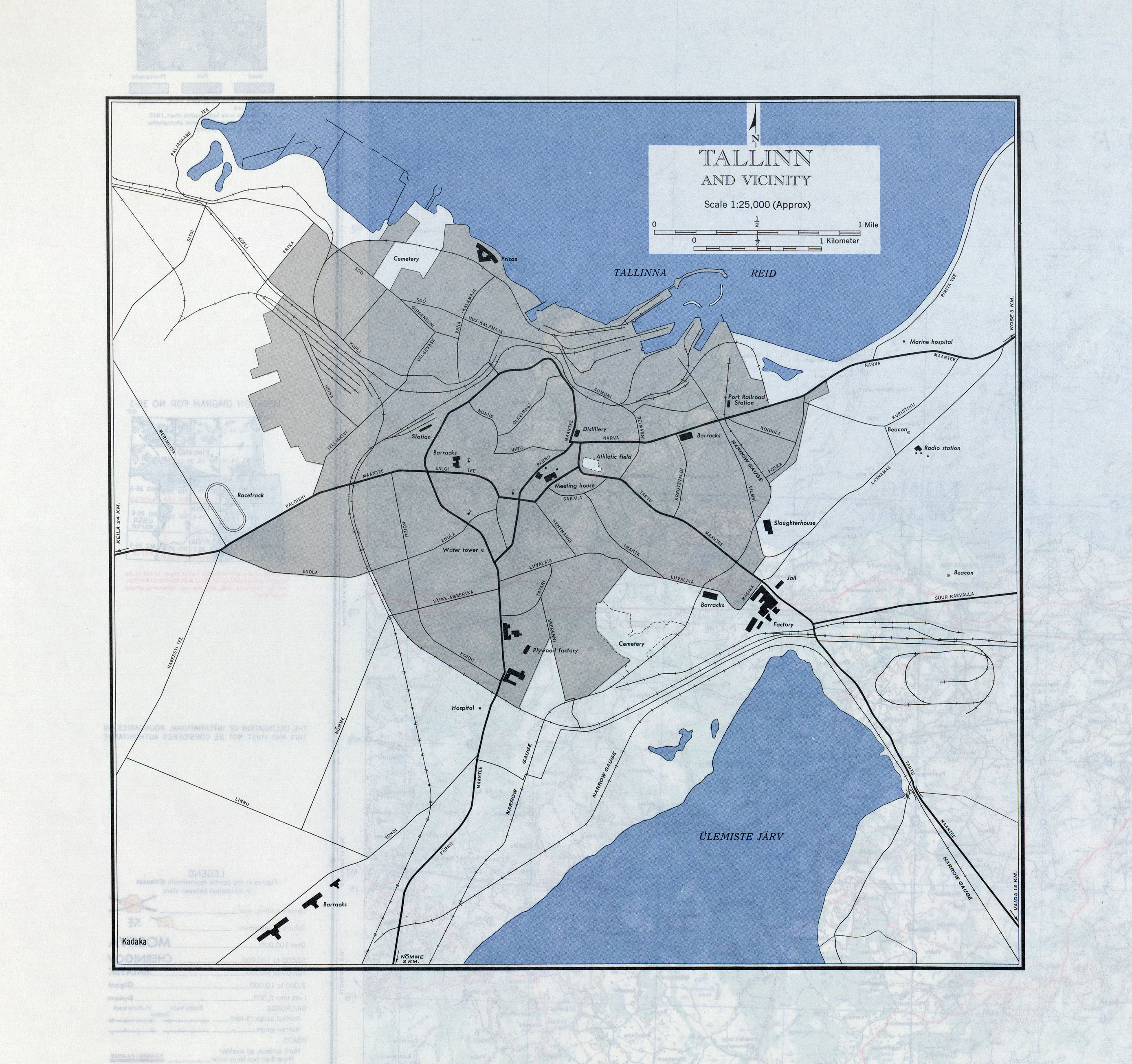 List from Eastern Europe AMS Topographic Maps. Series N501, U.S. Army Map Service, 1954